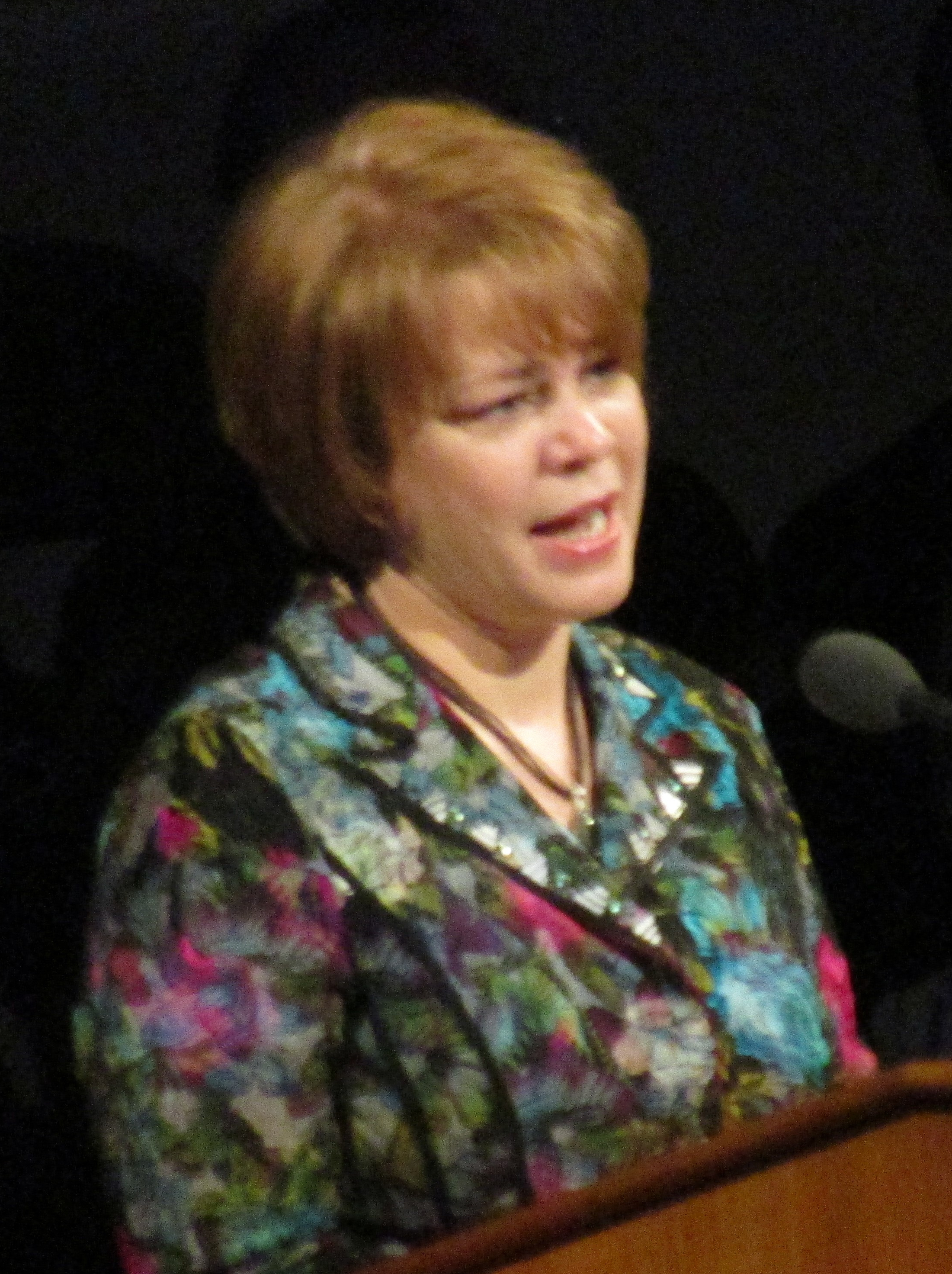 Sister Sharon Eubank speaking at the opening session of BYU Women's Conference.